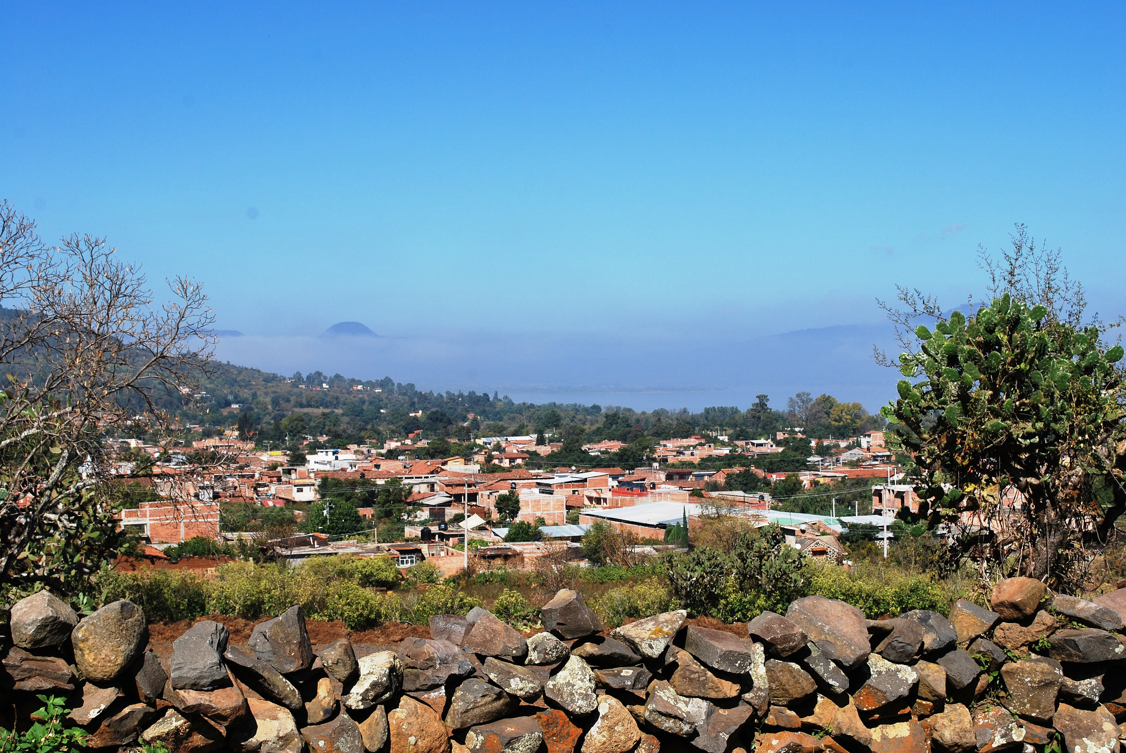 View of the town of Tzintzuntzan, Michoacan from the ruins of Tzintzuntzan